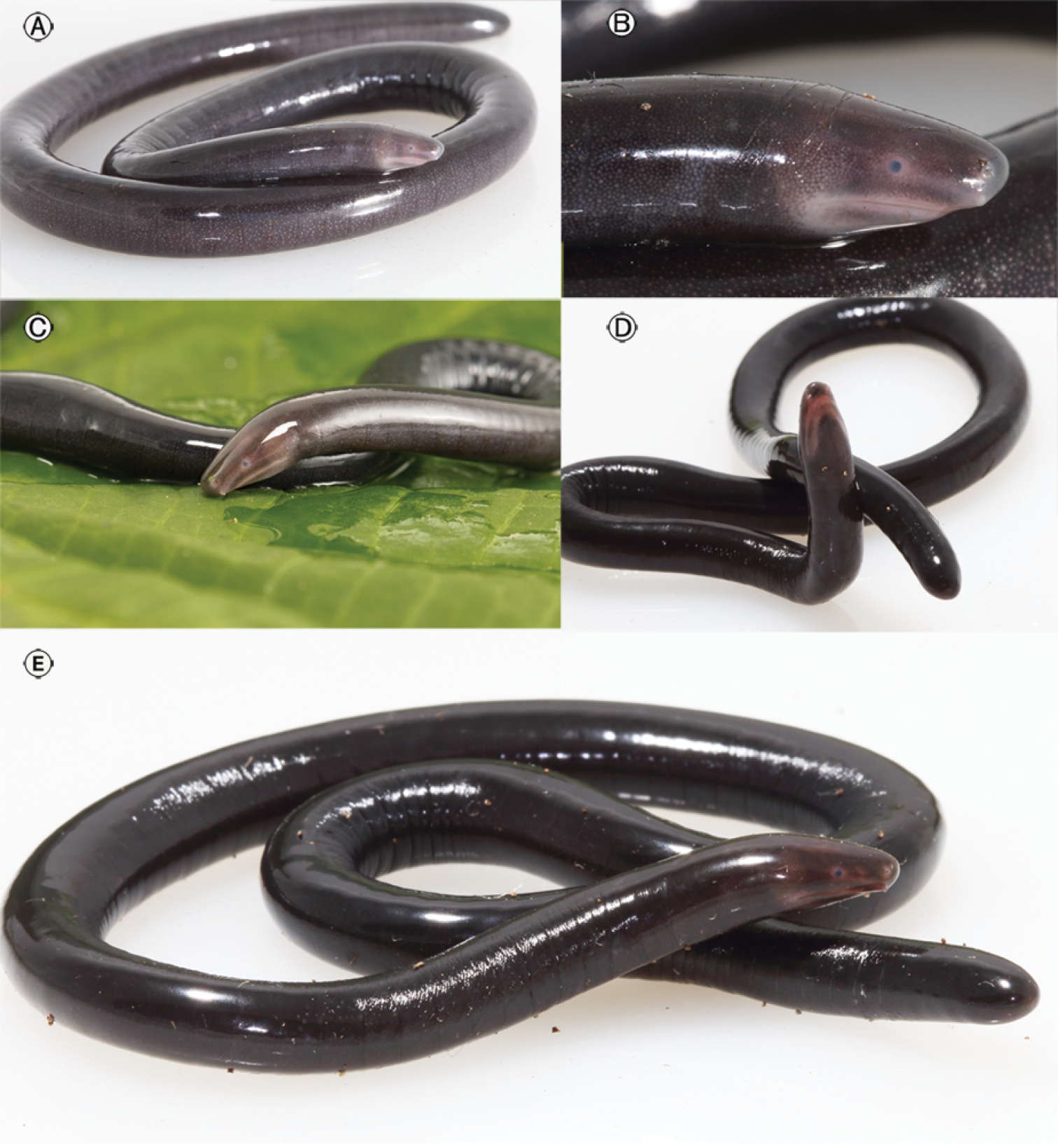 Caecilia pulchraserrana sp. nov. in life. A Adult female, paratype, IAvH-Am-15488, TL= 232 mm B adult female, paratype, IAvH-Am-15488, TL= 232 mm C adult female, holotype, IAvH-Am-15487, TL= 206 mm D–E adult female. paratype, UIS-MHN-A-6575, TL= 195 mm.